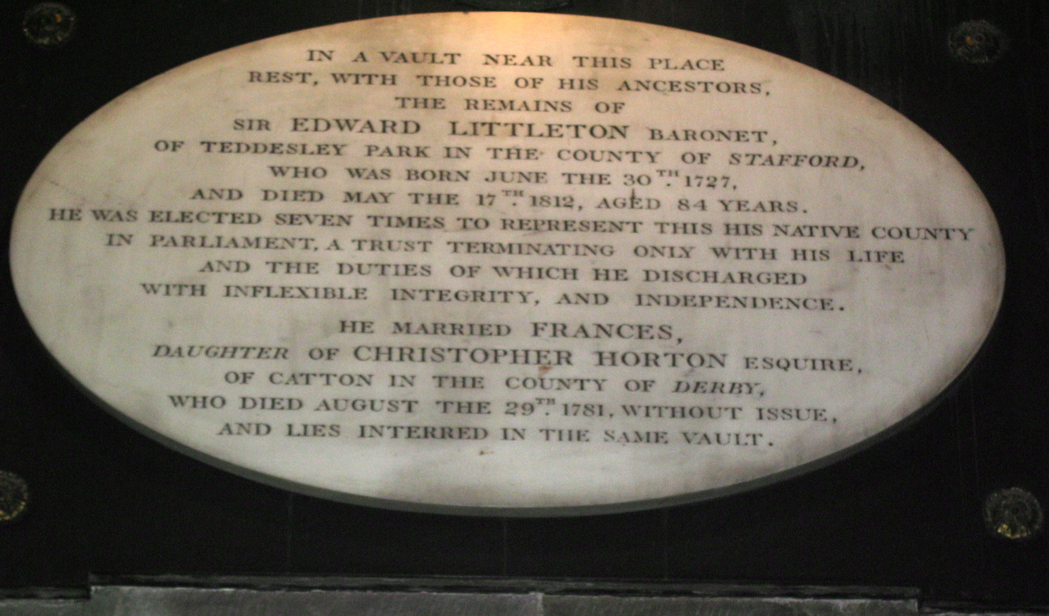 Penkridge, Staffordshire: St. Michael and All Angels church. Memorial to Sir Edward Littleton, the 4th and last baronet, who died in 1812. Whig MP for Staffs 1787-1812.